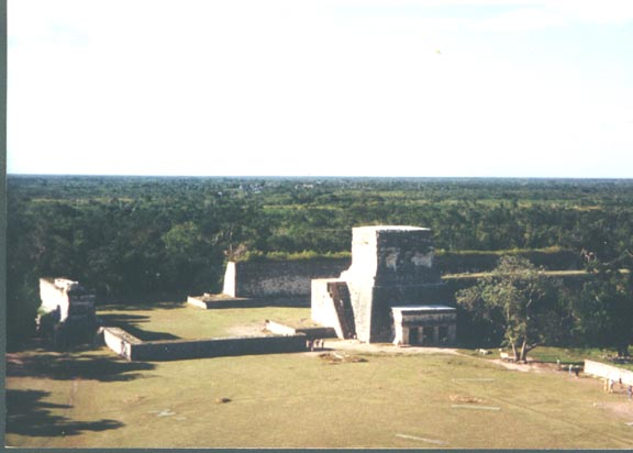 Chichen Itza Mexico - Ball court - Scan - A bit washed out.